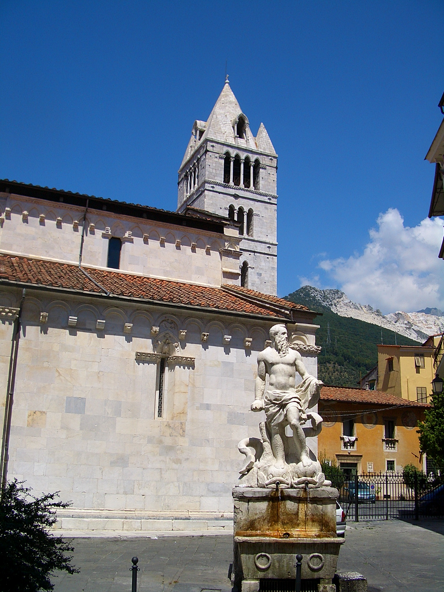 Carrara cathedral, with"Statua del Gigante" (Statue of the Giant), by Baccio Bandinelli next to it